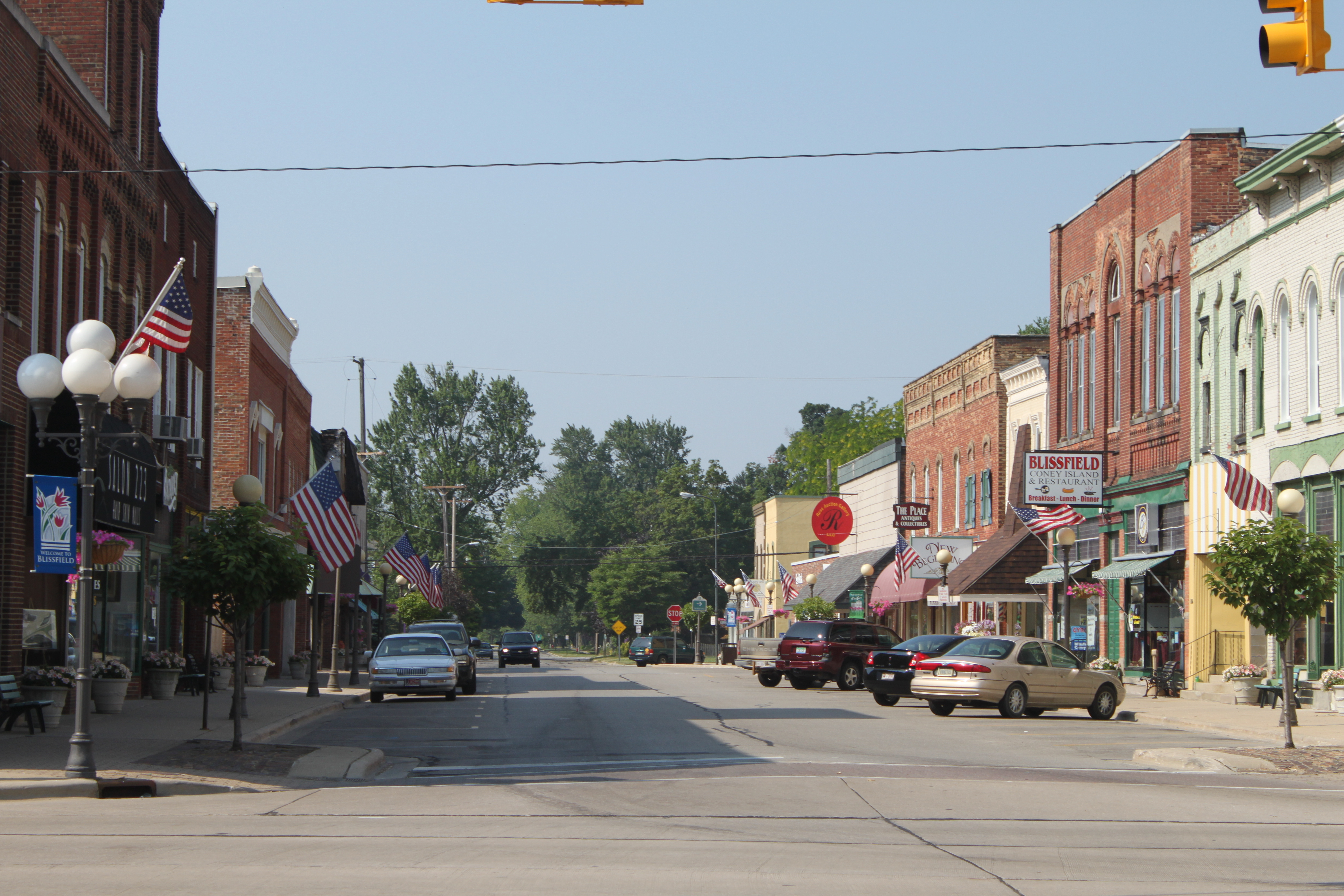 Blissfield Village Michigan central business district, S. Lane Street